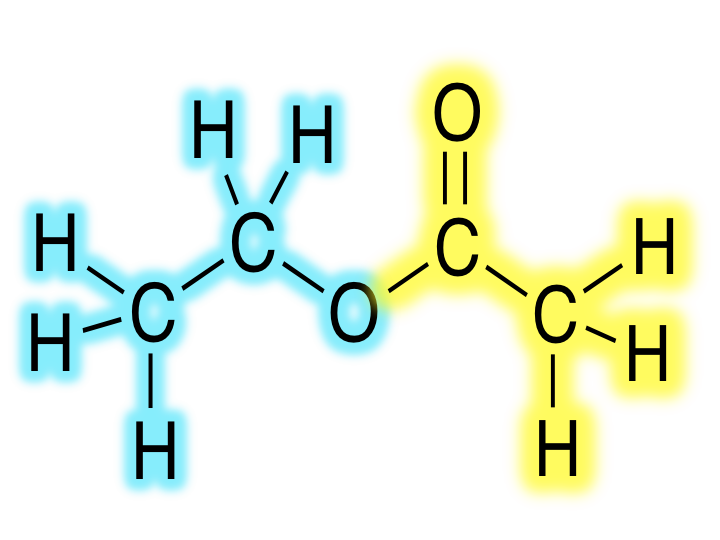 improved (vs Ethylethanoate-parts.svg) image of ethyl acetate, a typical ester with color